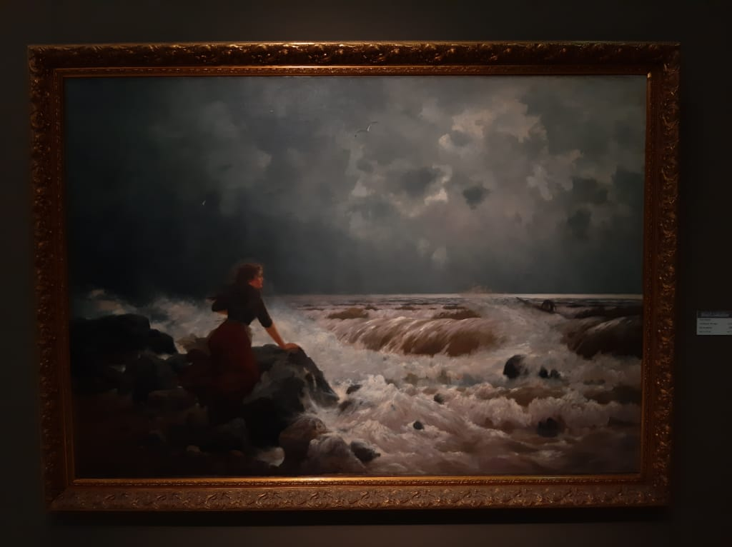 piece of art - Fine arts museum Alexandria